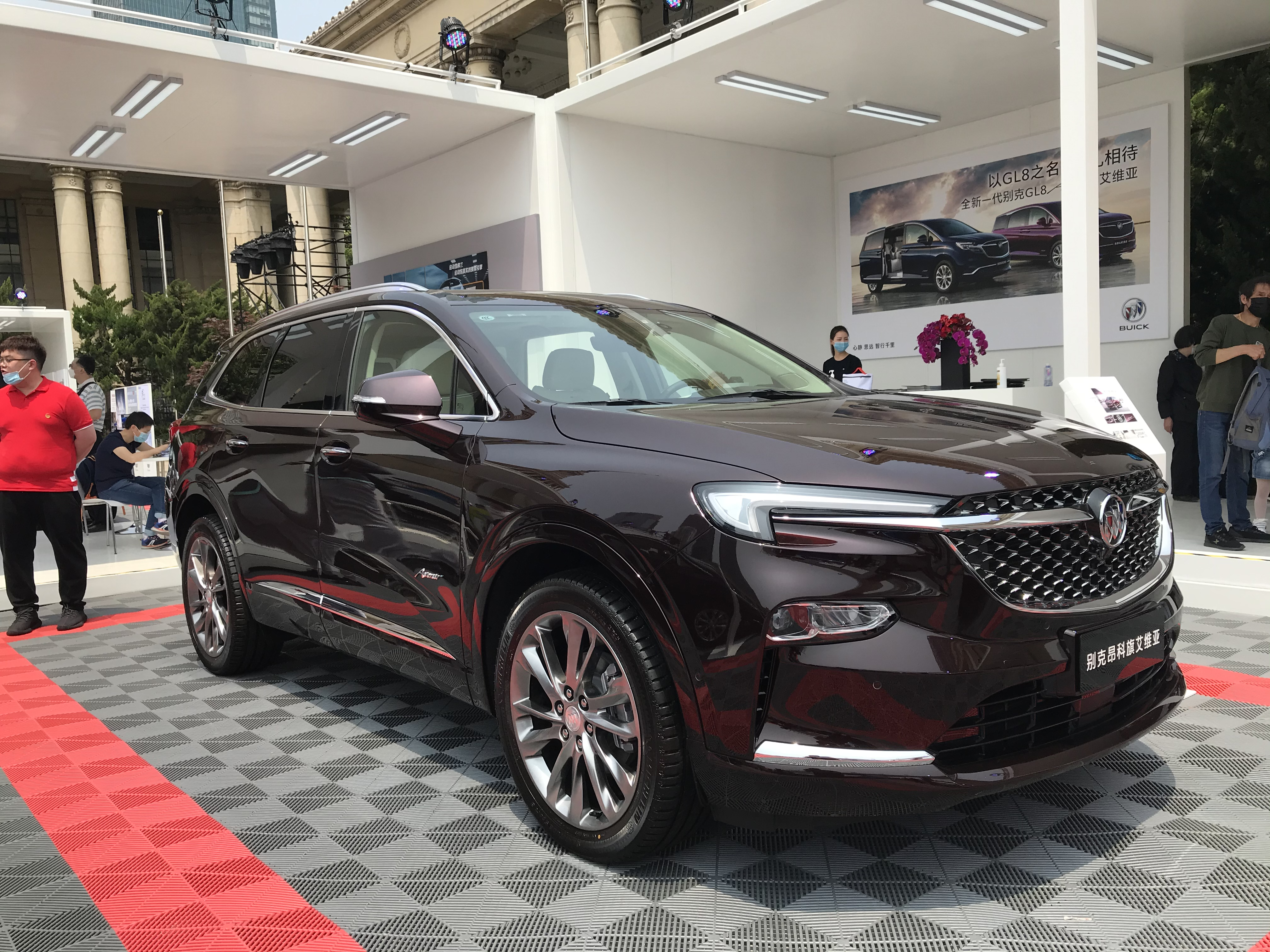 Buick Enlave Avenir Chinese version